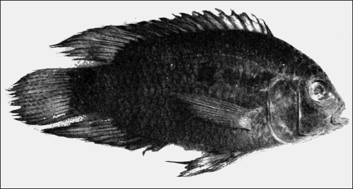 Chiclasoma bimaculatum of the chiclidae